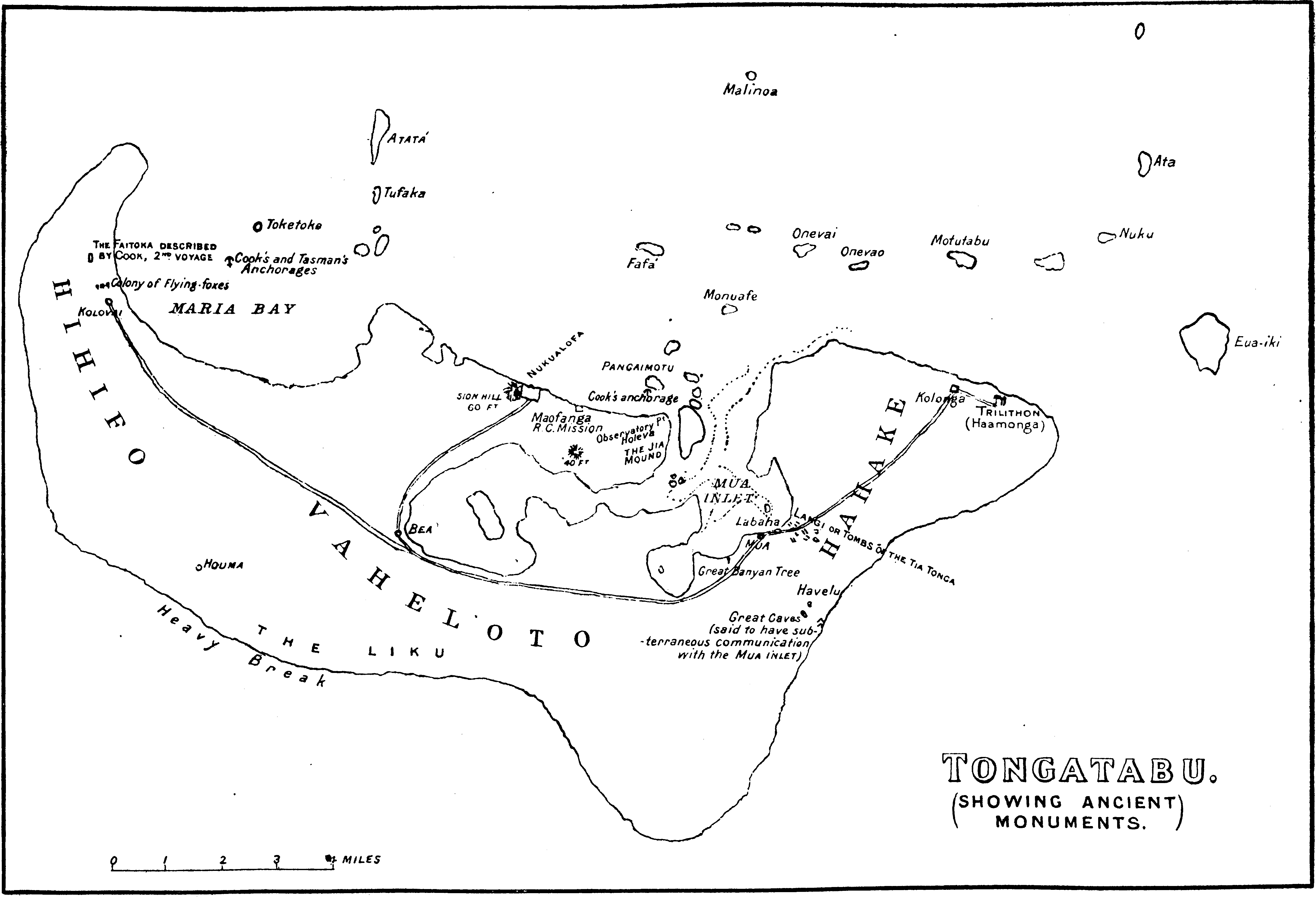 Maps from the plate section of book of Robert Wood Williamson: The Social and Political Systems of Central Polynesia, 1924, Vol. 1, third map, map inset facing page 131